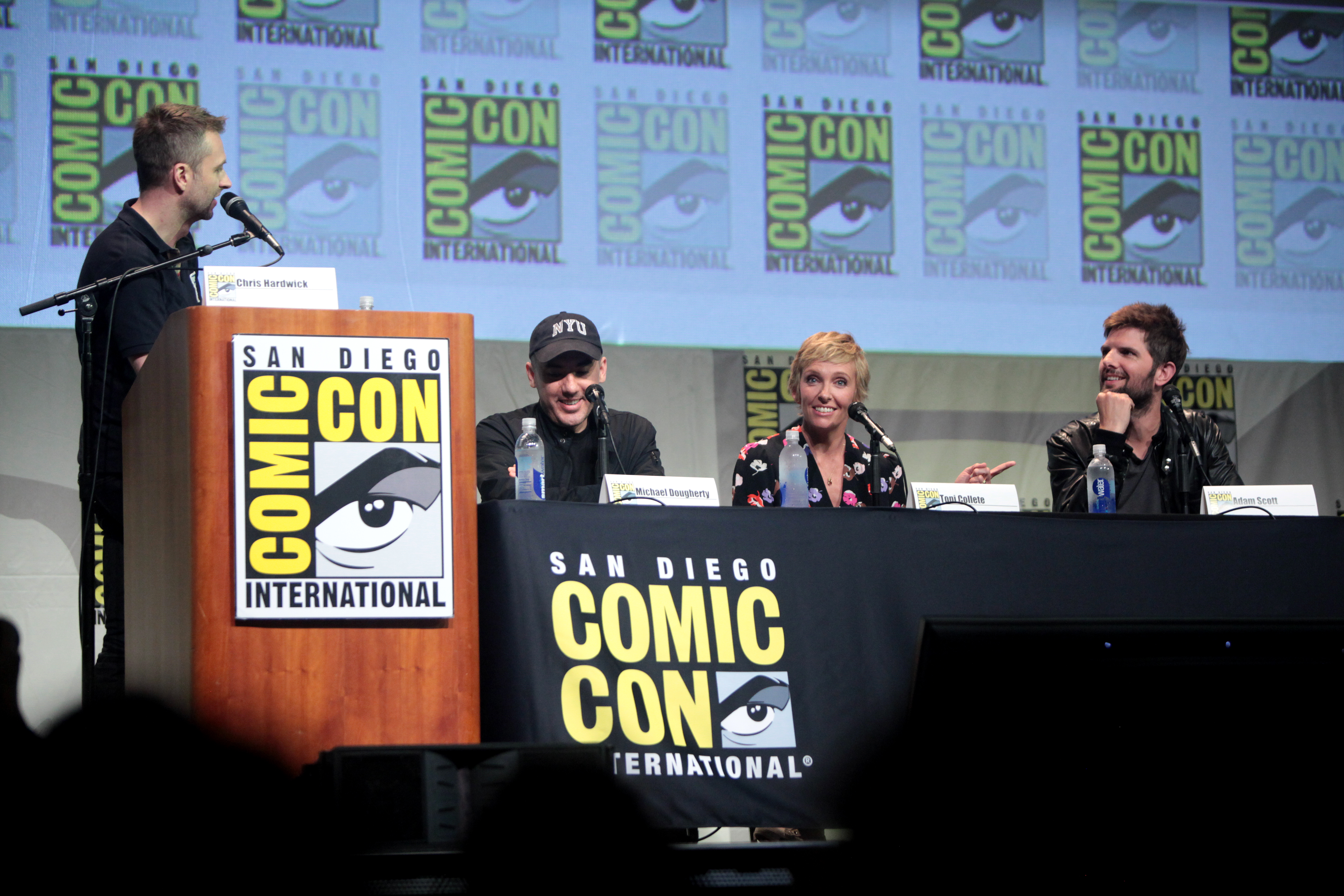 Michael Dougherty, Toni Collette and Adam Scott speaking at the 2015 San Diego Comic Con International, for "Krampus", at the San Diego Convention Center in San Diego, California.